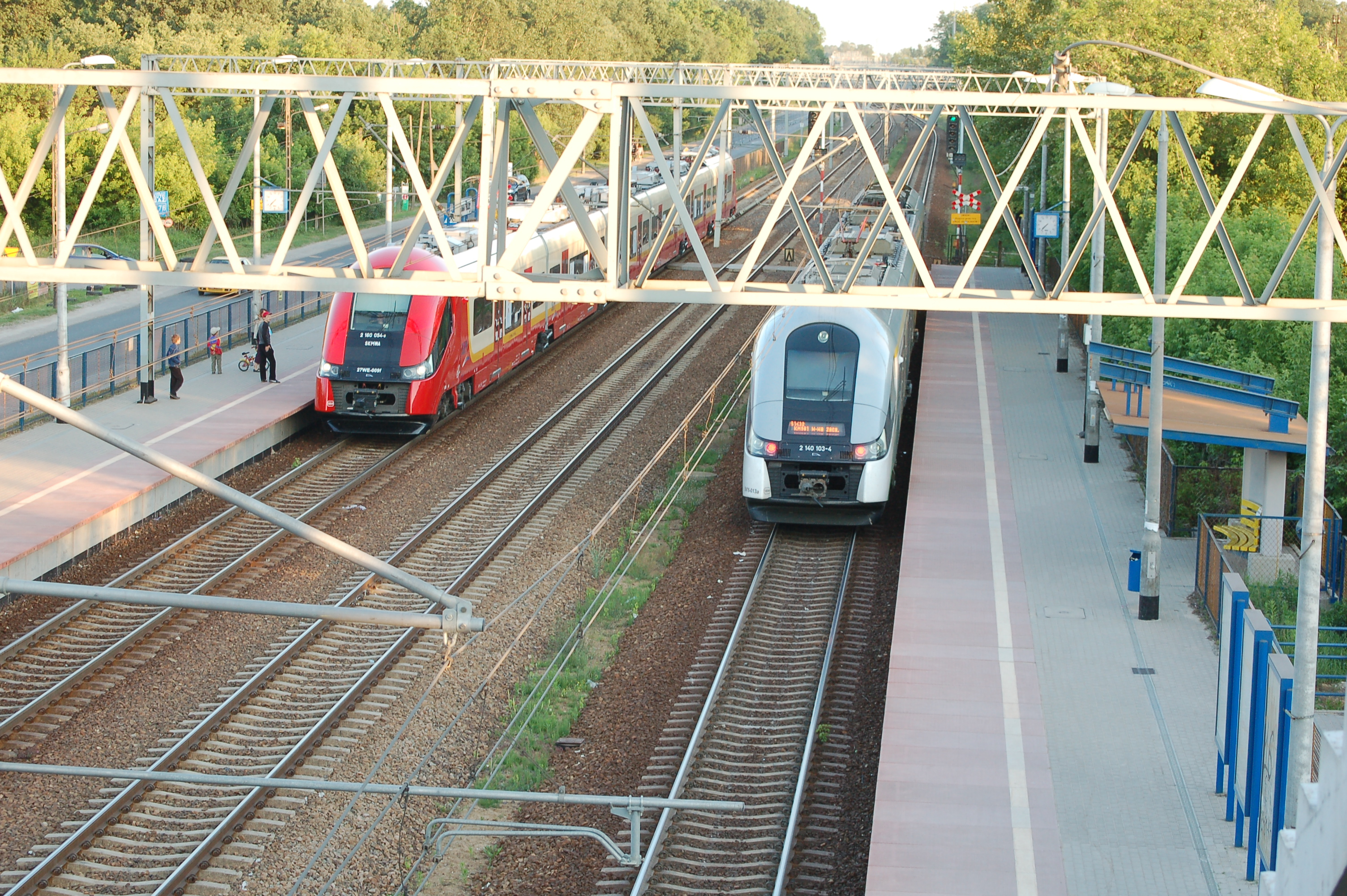 View from Klasykow viaduct towards Warszawa Pludy